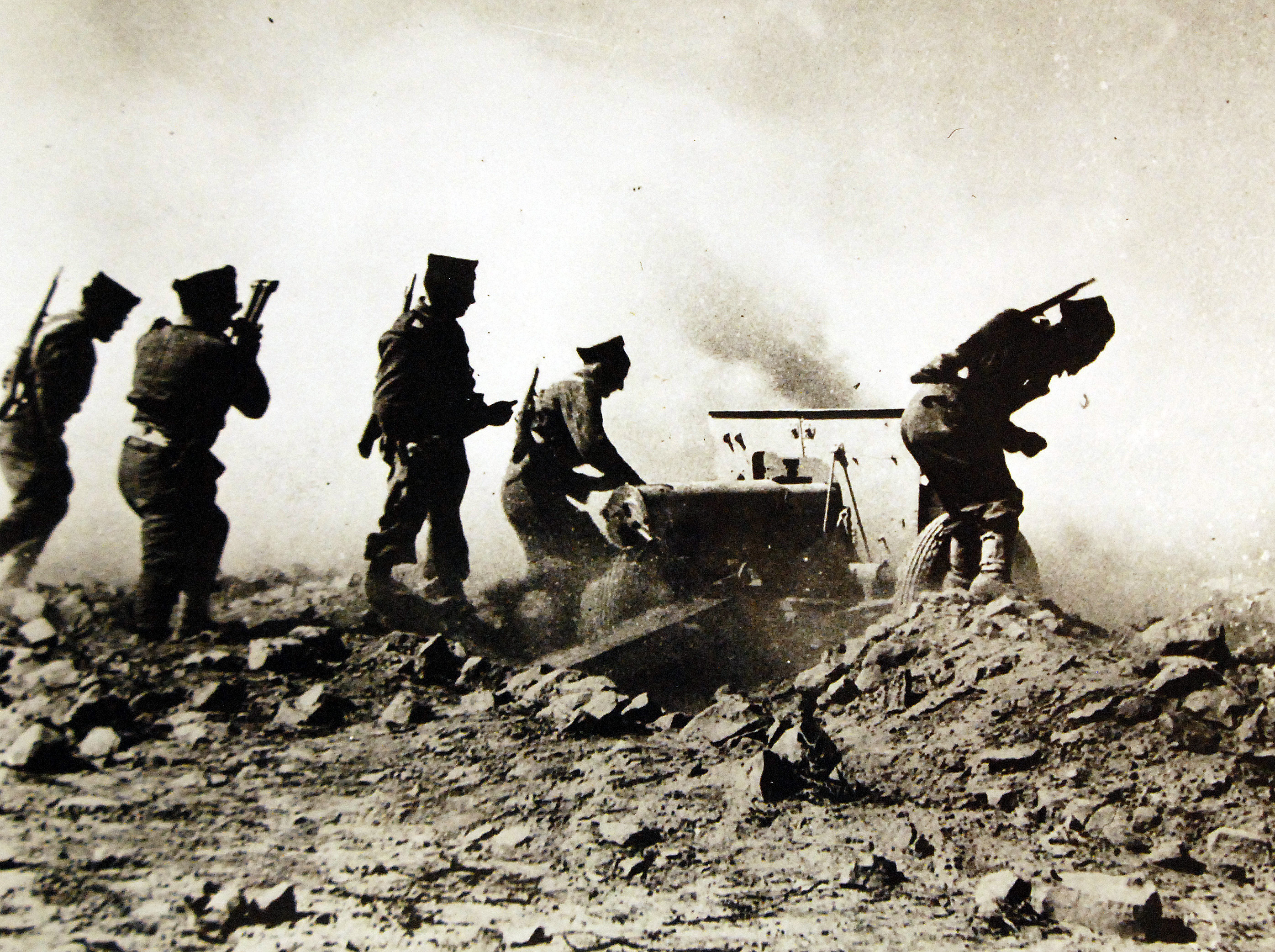 Lot 11588-38: North African Campaign. The Free French forces in the western desert of Africa, although not very large in numbers, are doing most valuable work. They have their own famous 75 mm. guns, maintain patrols with armored vehicles, and are manning outposts in some of the most forward areas, 1942. Office of War Information Photograph, 7909-ZE. (2016/02/11).